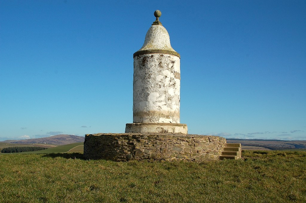 The Marian Hill Monument A plaque on the monument names Marian Hill with the date 1802. It's not clear if there was another date on the plaque. It's a fine monument, with a clear uncluttered shape, built on an excellent viewpoint. There are two theories about Marian. One says that she was a member of the Ross family, while the other claims that she was a local girl who was killed by a bull. For more information